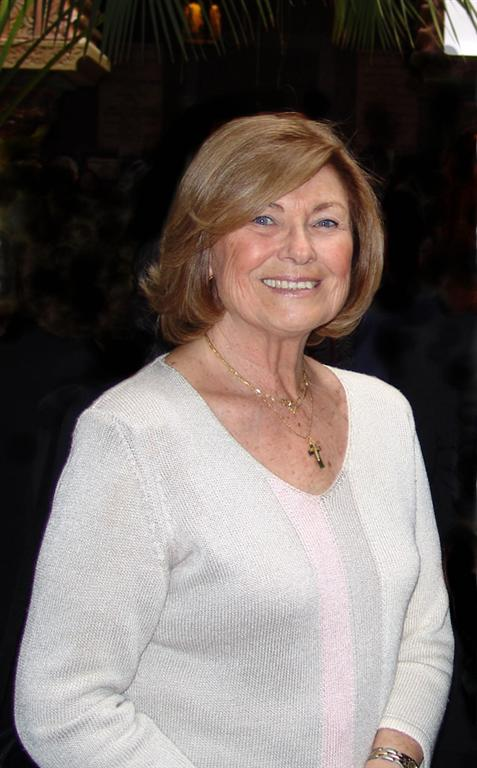 Madalena Iglésias in the presentation of . Lisbon, Casa do Alentejo, 17-05-2010. Photo by Carlos Botelho (Not only Beautiful but also Super Kind)